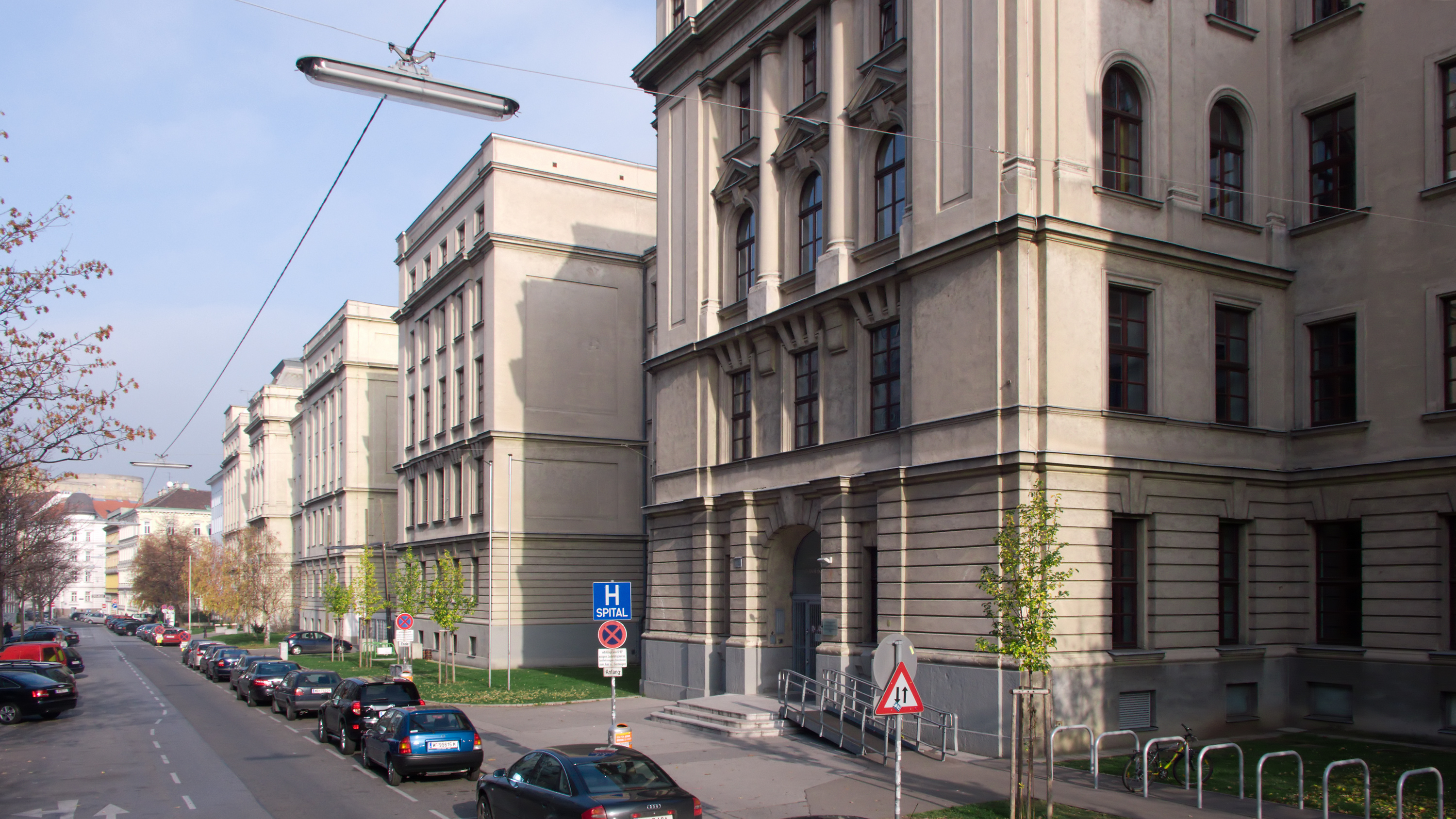 Höhere Internatsschule des Bundes Vienna